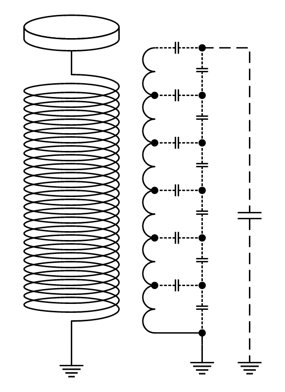 An AC equivalent circuit of the secondary coil of a Tesla coil, showing the effect of stray capacitance. The secondary of a Tesla coil consists of a long coil with many turns of fine wire, connected to ground at one end and to a smooth metal toroidal-shaped capacitive electrode (disk, top) at the other. Although there is no capacitor, the secondary coil acts like a tuned circuit, resonating with the stray parasitic capacitance in the circuit. This equivalent circuit shows these capacitances. The capacitor on the right represents the capacitance between the toroid electrode and ground. The capacitors on the left represent the capacitance between the windings of the secondary coil. Neotesla, do you have a source for this circuit? There are several things wrong with it. The separate windings of the coil act like plates of a capacitor, so the equivalent circuit should just show a single capacitor between each winding, the vertical column of capacitors. Your circuit shows an additional column of capacitors between them and the coil. Also, it may confuse nontechnical readers that the diagram only shows a capacitor between every two turns of the coil.